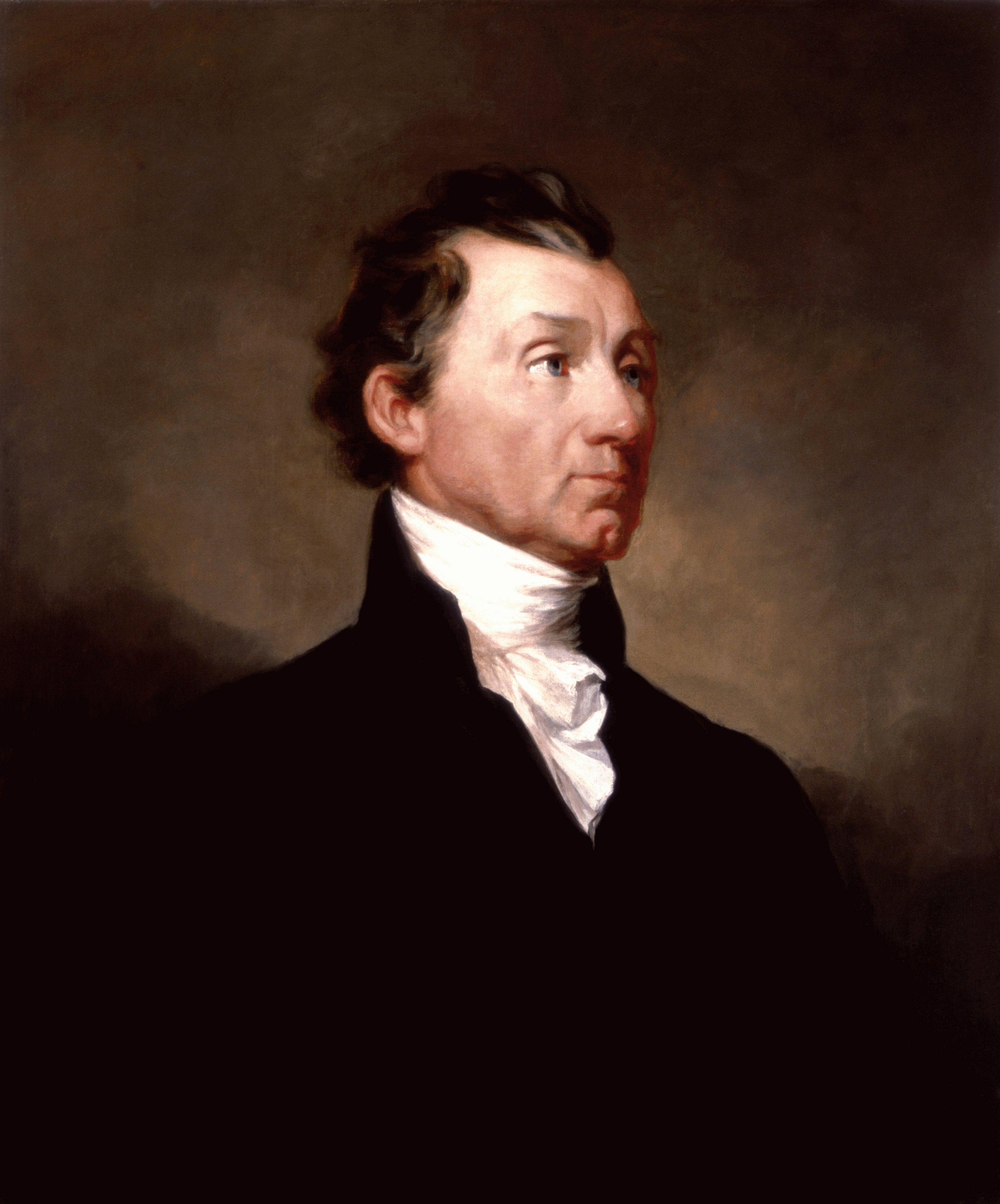 Portrait of James Monroe, The White House Historical Association